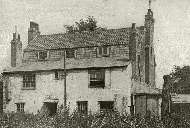 A former residence of writer Daniel Defoe, near London, England